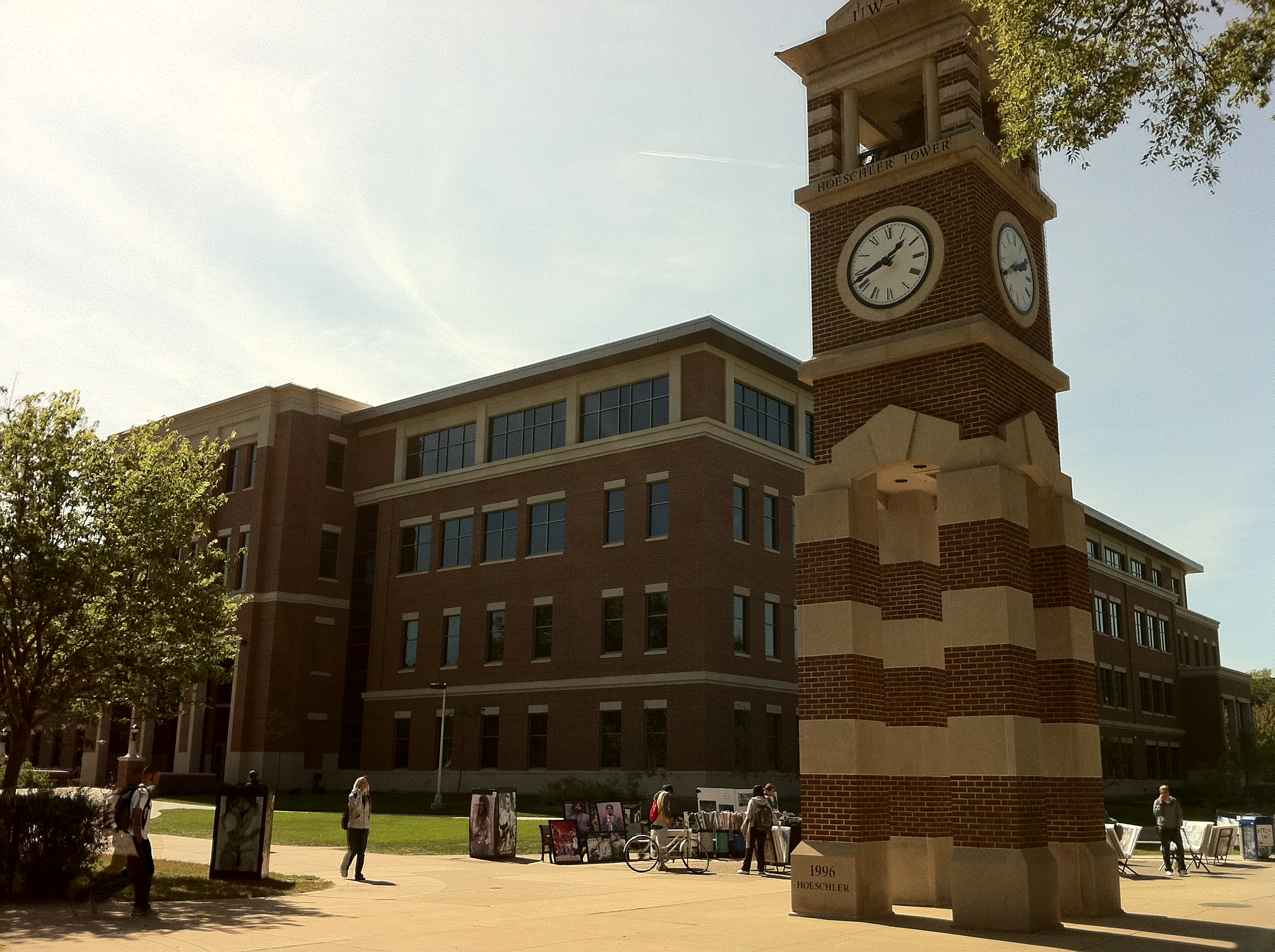 UW-La Crosse campus mall on a fall day.